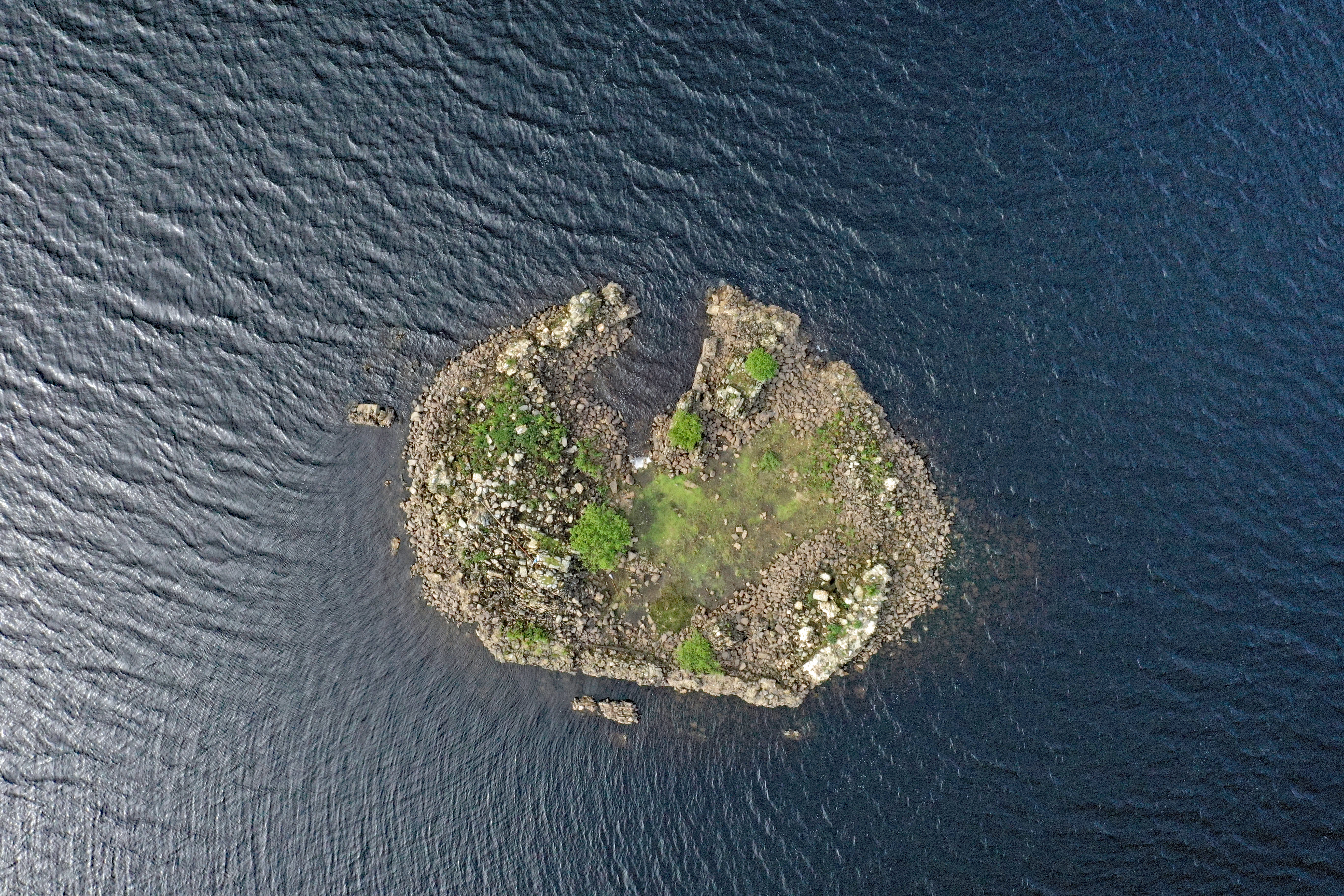 Loch Doon Castle (Ayrshire, Scotland, UK)